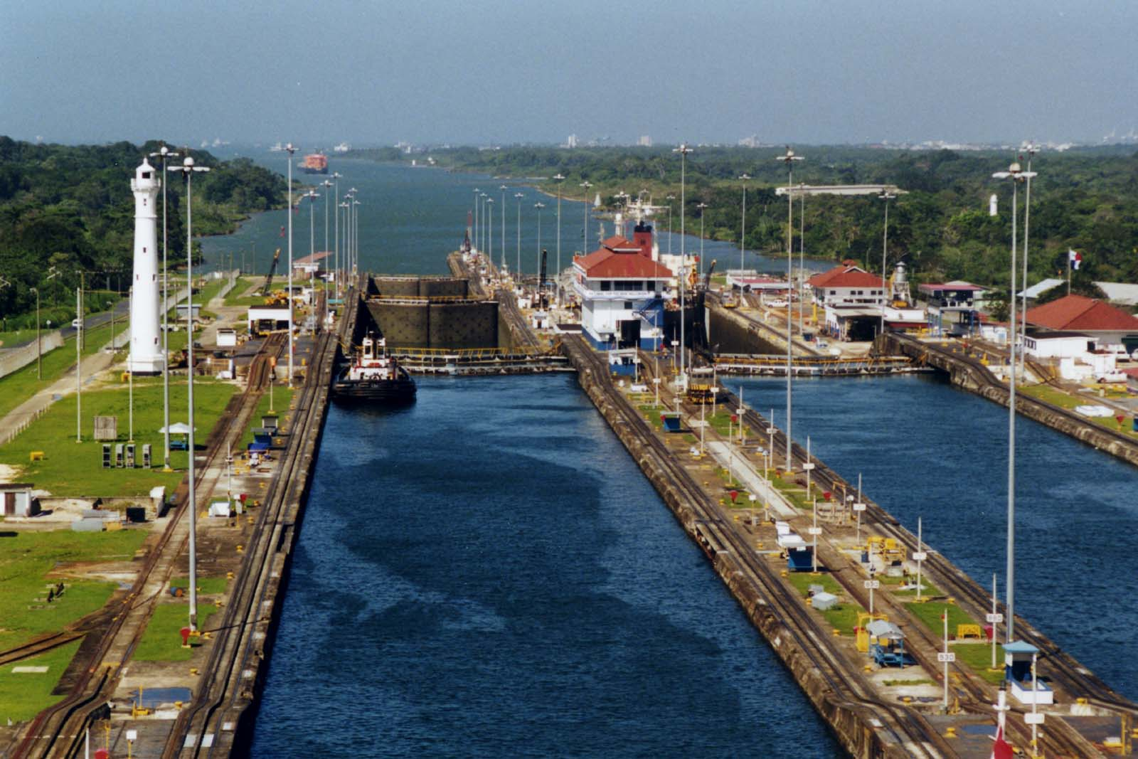 Photo of Panama Canal Gatun Locks.